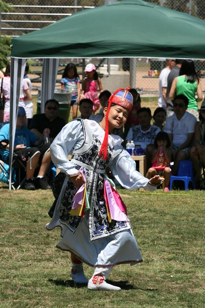 Mongolian girl performing traditional Bayad dance during the Naadam festival took place in Los Angeles, CA, USA on 13 July of 2009.